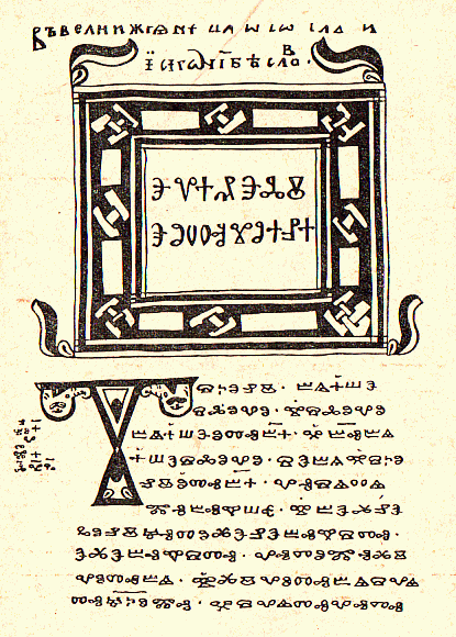 The first page of the Gospel of John from Codex Zographensis